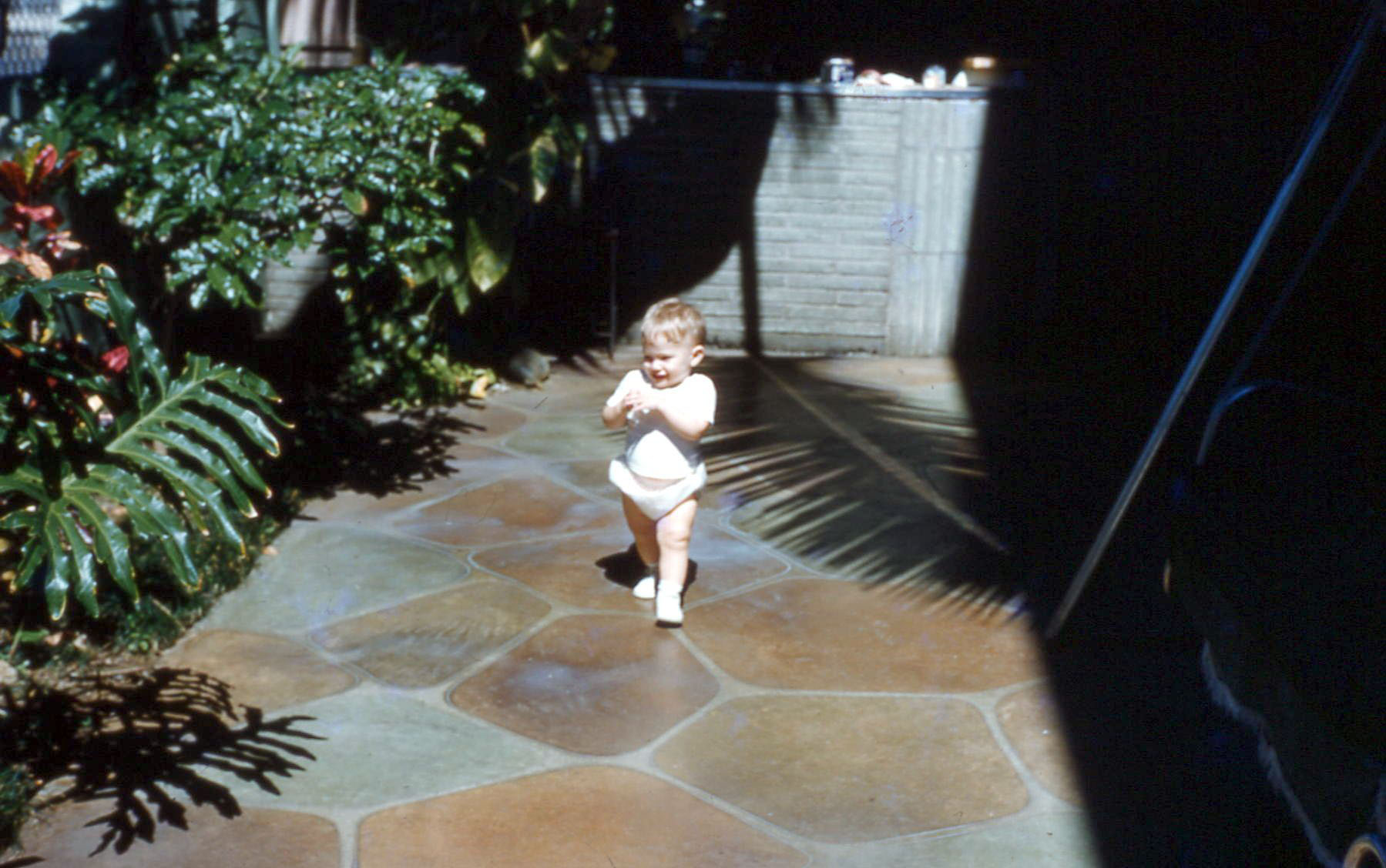 Patio with stone tiled floor, Hawaii.